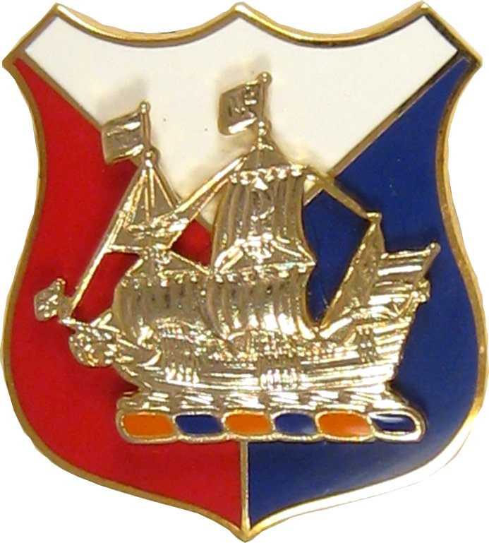 The DUI of the NY ARNG Headquarters